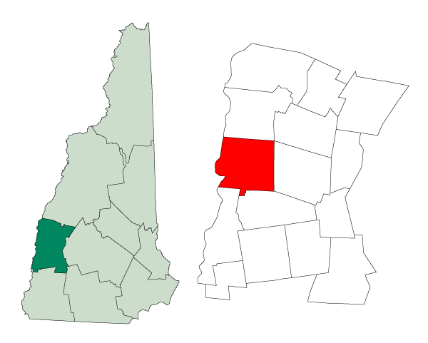 Map of a municipality in Sullivan County, New Hampshire